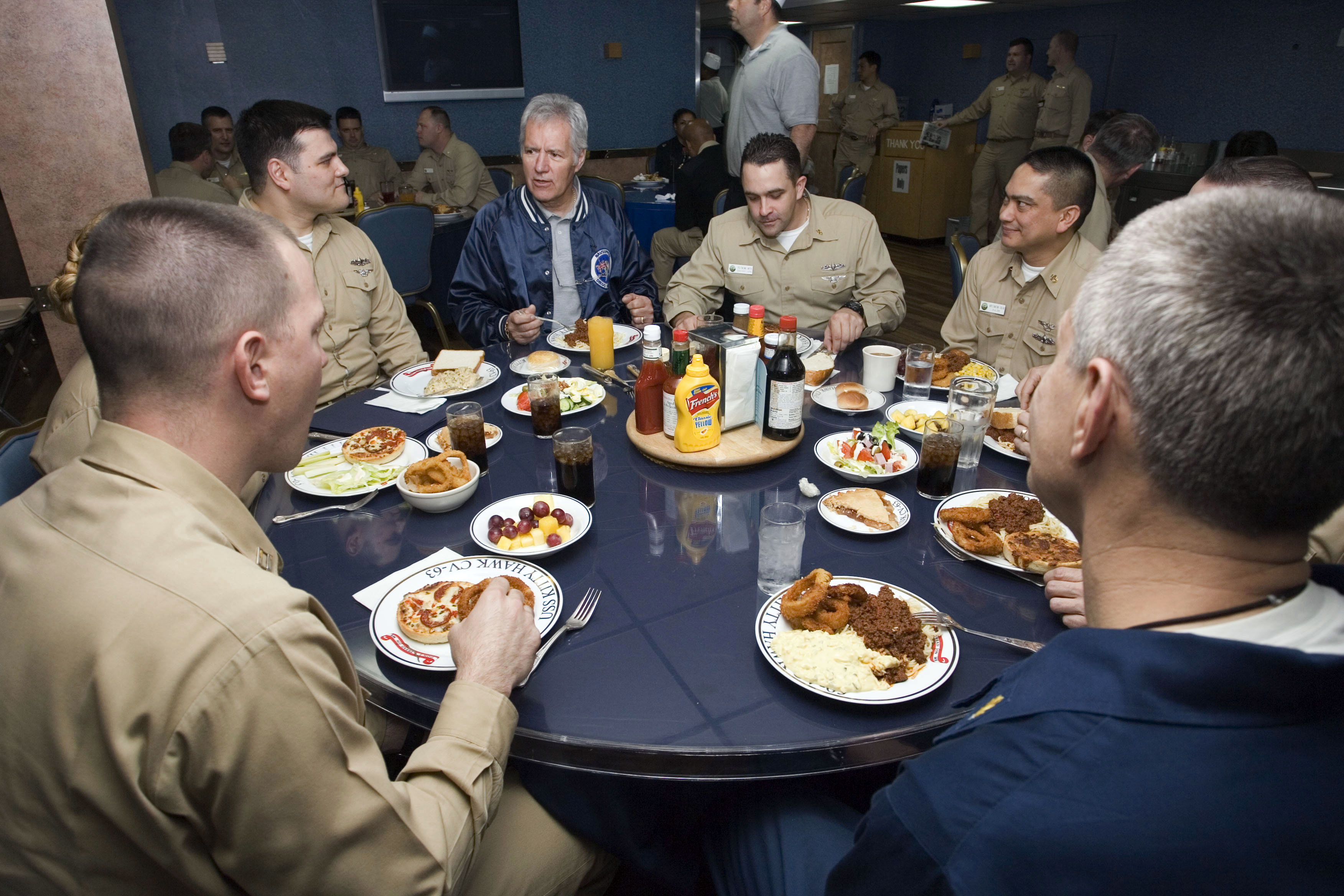 YOKOSUKA, Japan (March 29, 2007) – “Jeopardy!” host Alex Trebek enjoys lunch with USS Kitty Hawk (CV 63) Sailors in the wardroom. Trebek is in Japan as part of a USO tour searching for future contestants through Department of Defense employees, military personnel and family. Kitty Hawk operates from Fleet Activities Yokosuka, Japan. U.S. Navy photo by Mass Communication Specialist 3rd Class Jarod Hodge (RELEASED)